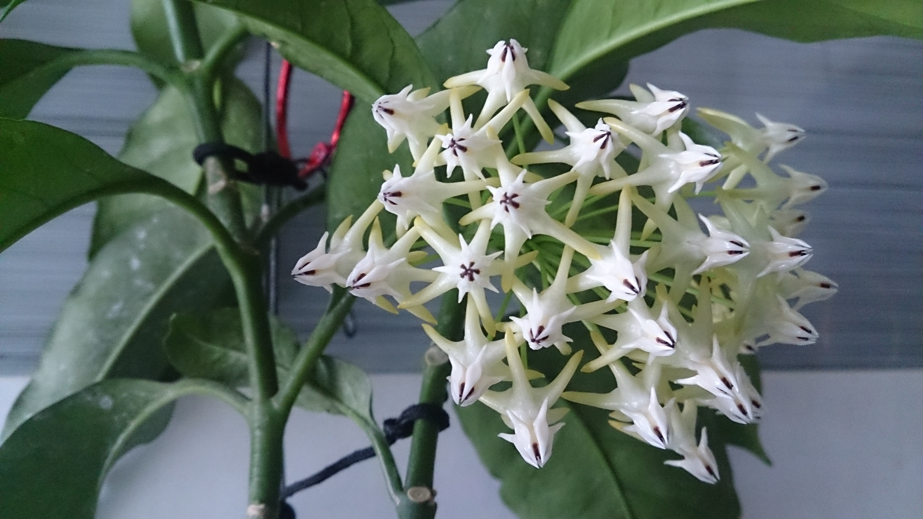 Hoya multiflora. Common names: Shooting Stars Hoya, Wax Plant, Porcelain Flower.